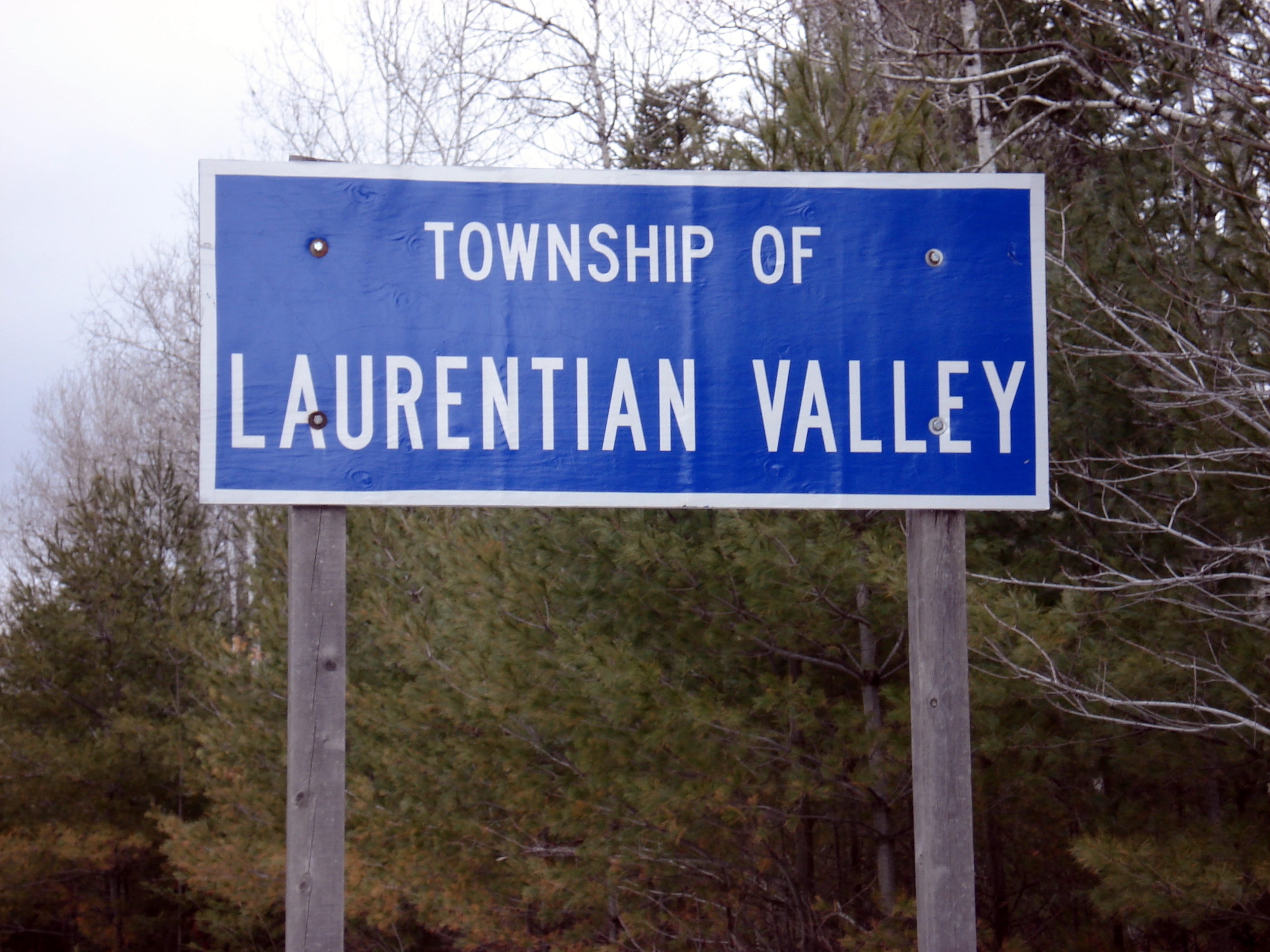 A sign on Round Lake Road welcoming drivers to Laurentian Valley, Ontario, Canada.